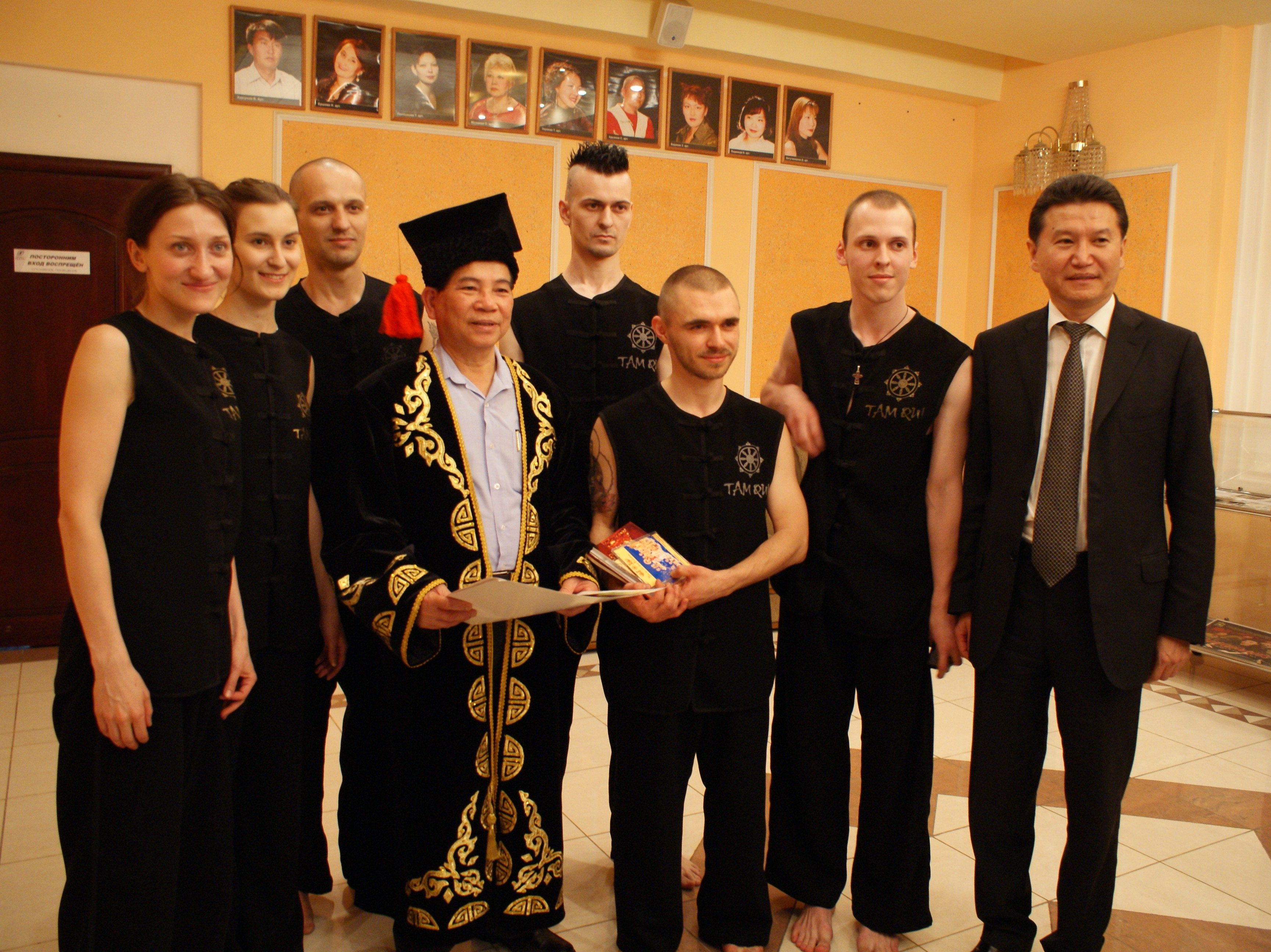 There's a meeting of the Federation Tam Qui Khi-kong with President of the Socialist Republic of Vietnam Mr. Nguyen Minh Triet, May,10, 2010. From right to left: FIDE President Kirsan Ilyumzhinov, Thien Nguyen (Vladimir Kostomarov) - executive director of The Federation Tam Qui Khi-kong, President of the Socialist Republic of Vietnam Mr. Nguyen Minh Triet, Thien Duyen (Igor Mikhnevich) - the founder and the heard of The Federation Tam Qui Khi-kong, Dien Linh (Kolusheva Antonina) - Director of Development of the Federation Tam Qui Khi-kong.